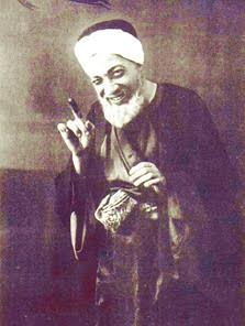 Naguib el-Rihani playing the role of "kishkish bey" in a theatrical from 1917.